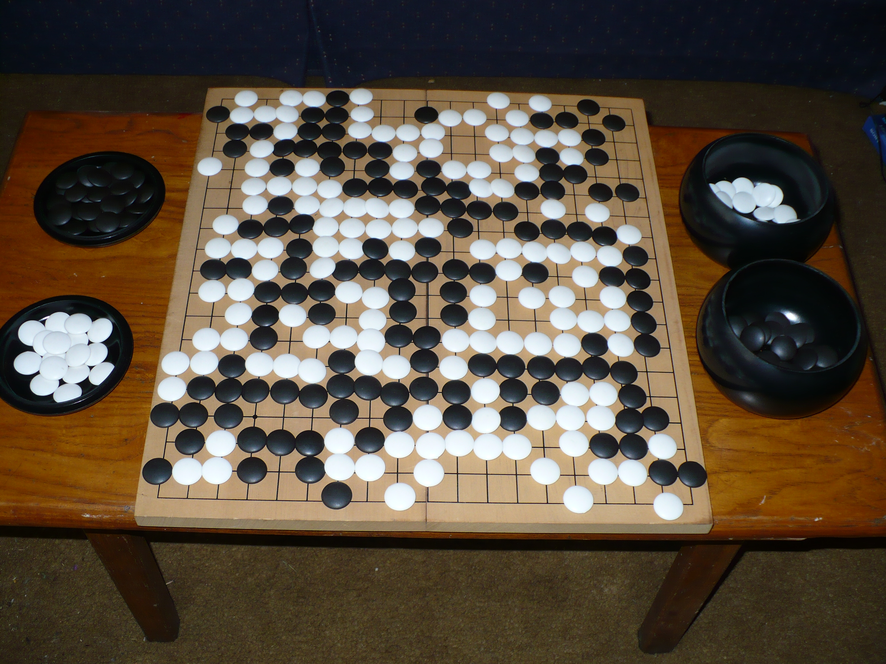 Final position of go game Kitani Minoru vs. Go Seigen April 30, 1958.